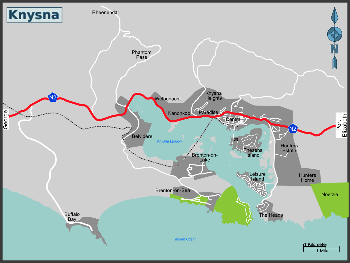 Map of Knysna. Map of Knysna, Knysna Map of: Western Cape¤.